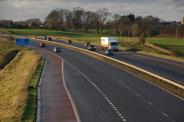 The M1 near Moira (1). See 195740. This is the view towards Dungannon from the Station Road bridge near Moira. The westbound sliproad can be seen at bottom left.